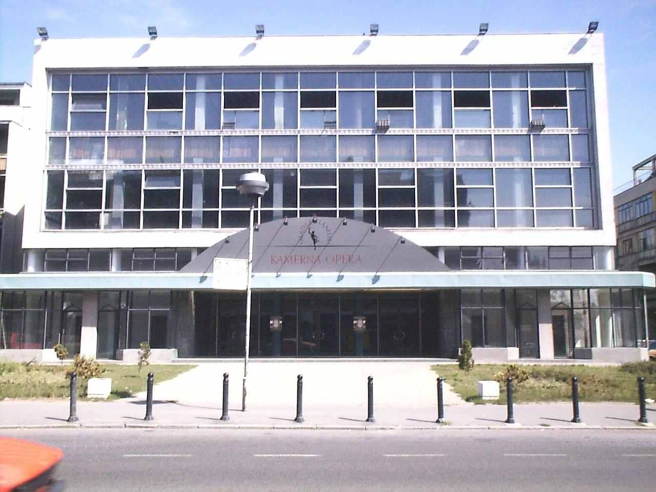 Madlenianum building when it was still Chamber opera Madlenianum stage.